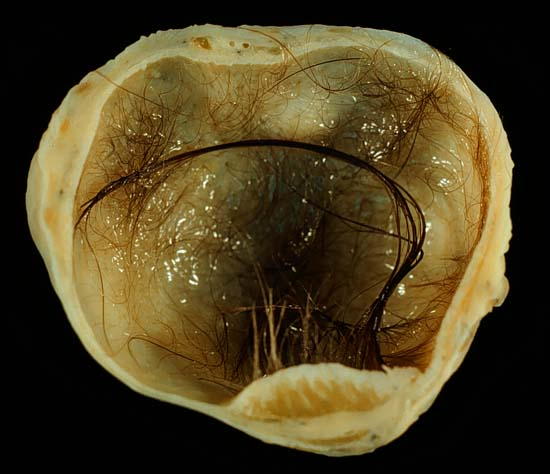 This 4-cm mature cystic teratoma of the ovary was found incidentally at the time of Caesarean section and removed. Like most ovarian teratomas (and unlike those of the testis) this one was benign, showing only mature tissues microscopically. In addition to the obvious cutaneous structures (giving rise to the hair seen here), histologically there was abundant neuroglia and even one neuron. Central nervous system tissue is very common in mature teratomas. ਪੰਜਾਬੀ: ਇਹ 4 ਸੈਂਟੀਮੀਟਰ ਪਿਸ਼ਾਬ ਦਾ ਪਿਸ਼ਾਬ ਅੰਡਾਸ਼ਯ ਦੇ ਟਾਰਟੋਮਾ ਨੂੰ ਅਚਾਨਕ ਸਿਜੇਰਿਆਈ ਸੈਕਸ਼ਨ ਦੇ ਸਮੇਂ ਪਾਇਆ ਗਿਆ ਸੀ ਅਤੇ ਹਟਾਇਆ ਗਿਆ ਸੀ. ਬਹੁਤ ਸਾਰੇ ਅੰਡਕੋਸ਼ ਵਾਲੇ ਟੈਰੇਟਾਮਾ (ਅਤੇ ਟੌਰਿਸ ਦੇ ਉਲਟ) ਵਾਂਗ, ਇਹ ਇੱਕ ਸੁਭਾਵਕ ਸੀ, ਸਿਰਫ ਮਾਹਰ ਪਿਸ਼ਾਬਾਂ ਨੂੰ ਮਾਈਕਰੋਸਕੌਪਿਕ ਤੌਰ 'ਤੇ ਵਿਖਾ ਰਿਹਾ ਸੀ ਸਪੱਸ਼ਟ ਚਮਕੀਲੇ ਢਾਂਚਿਆਂ ਦੇ ਇਲਾਵਾ (ਇੱਥੇ ਦਿਖਾਇਆ ਗਿਆ ਵਾਲ ਉੱਠਦੇ ਹਨ), ਅਤੀਤ ਵਿੱਚ ਬਹੁਤ ਸਾਰੇ ਨਯੂਰੋਗਲੀਆਂ ਸਨ ਅਤੇ ਇੱਥੋਂ ਤੱਕ ਕਿ ਇੱਕ ਨਯੂਰੋਨ ਵੀ. ਕੇਂਦਰੀ ਨਸ ਪ੍ਰਣਾਲੀ ਟਿਸ਼ੂ ਪ੍ਰੋੜ੍ਹਤਾ ਵਾਲੇ ਟਾਰਟੋਮਾ ਵਿੱਚ ਬਹੁਤ ਆਮ ਹੁੰਦਾ ਹੈ.